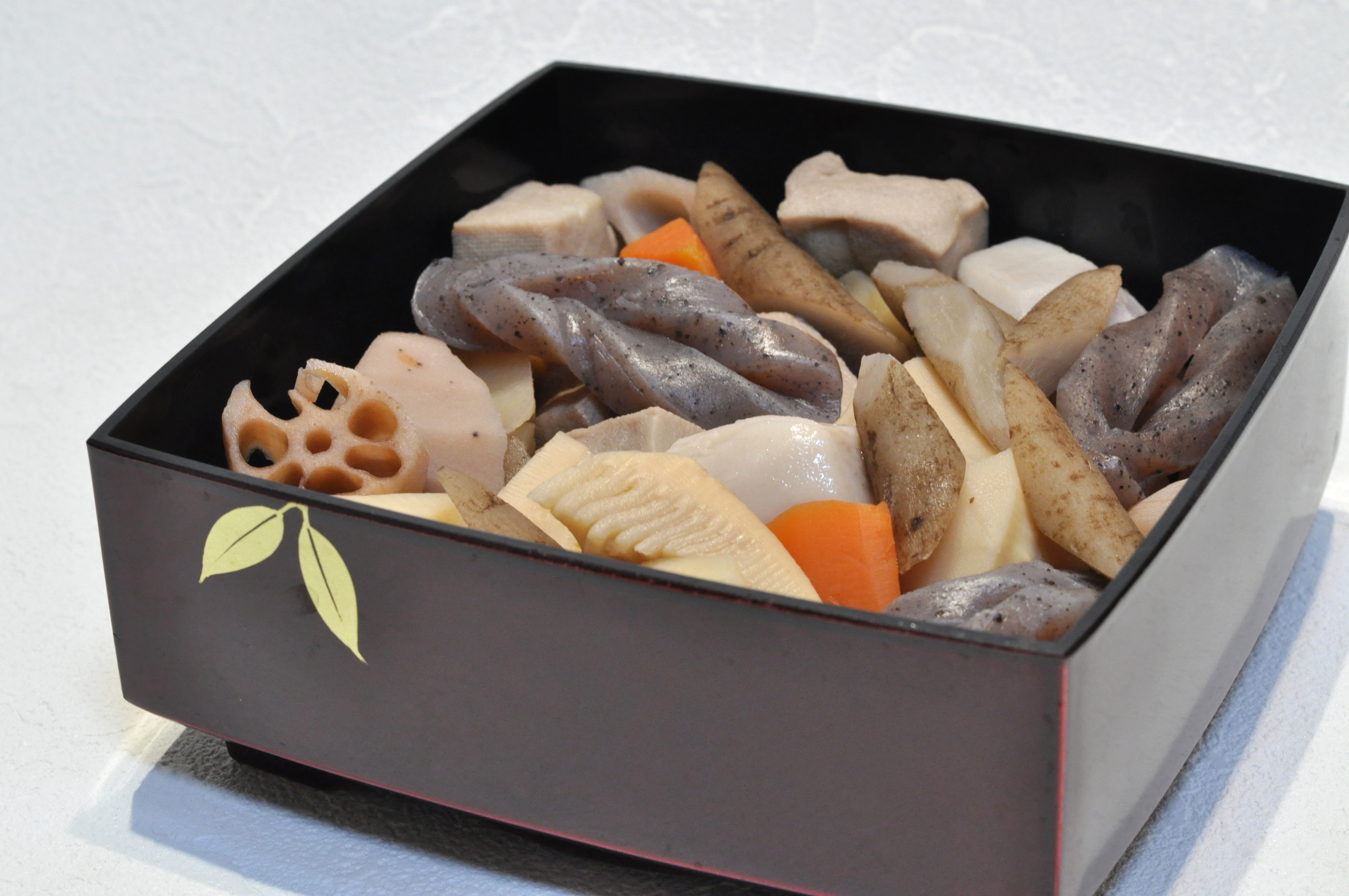 One of Japanese foods prepared for New Year's "Nishime"